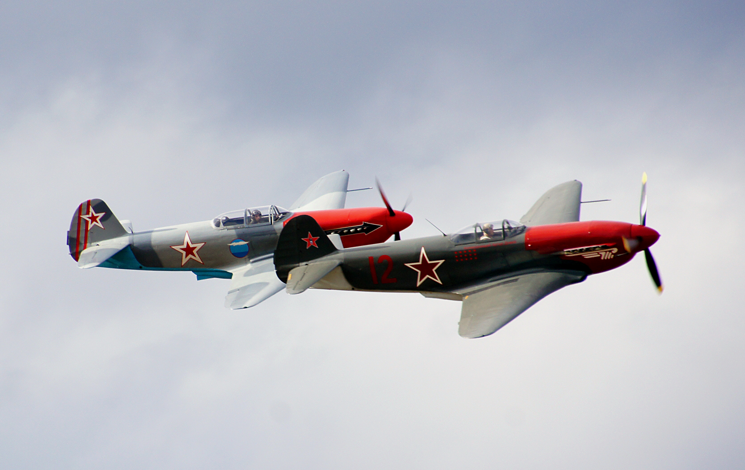 The Yakovlev Yak-1 was a World War II Soviet fighter aircraft. Produced from early 1940, it was a single-seat monoplane with a composite structure and wooden wings.[1] The Yak-1 was extremely manoeuvrable, fast and well armed and, just as importantly, it was easy to maintain and reliable.[2] It formed an excellent basis for subsequent developments from the Yakovlev bureau. In fact it was the founder of a family of aircraft, with some 37,000 being built.